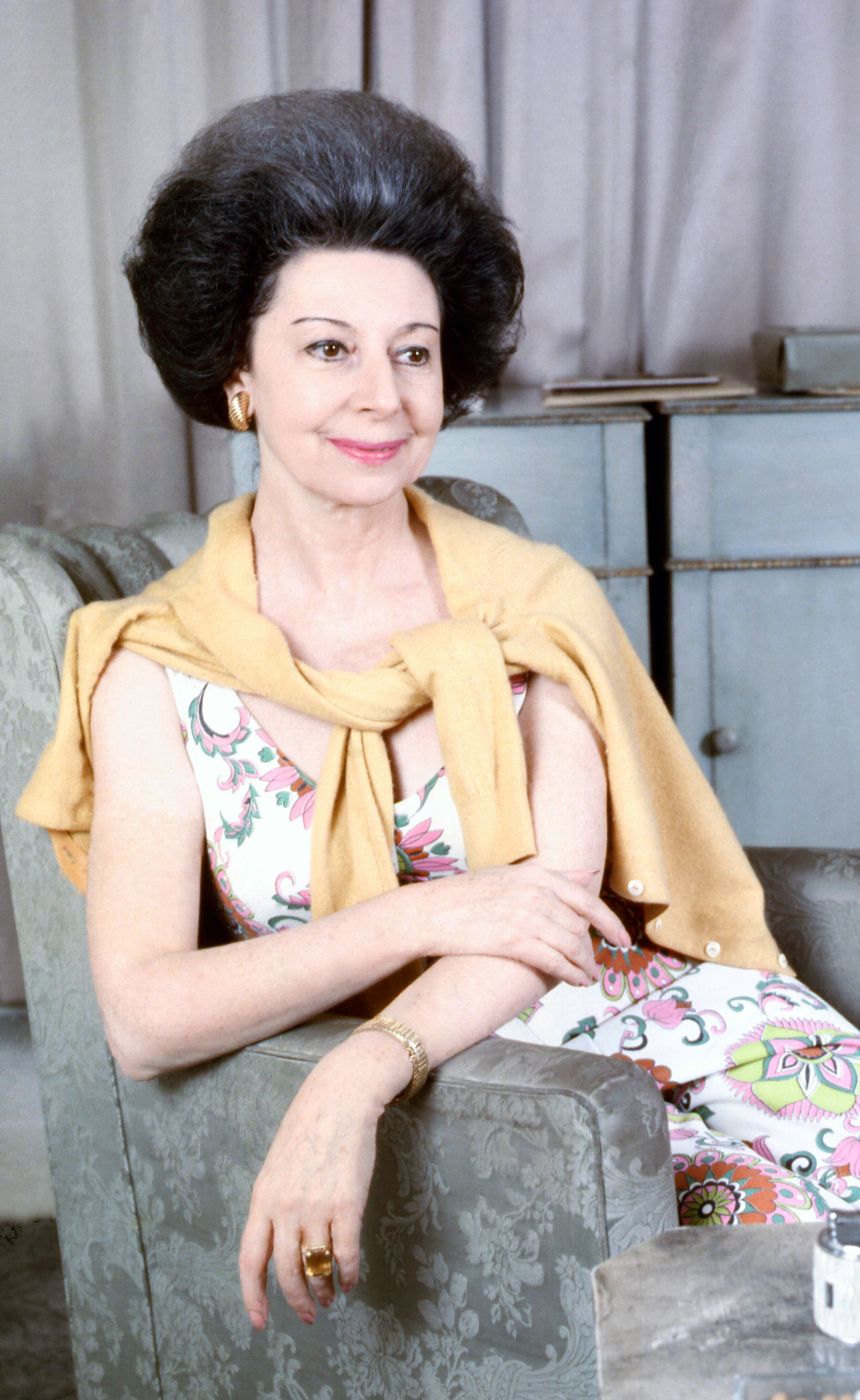 Dame Alicia Markova taken in her home in Knightsbridge London